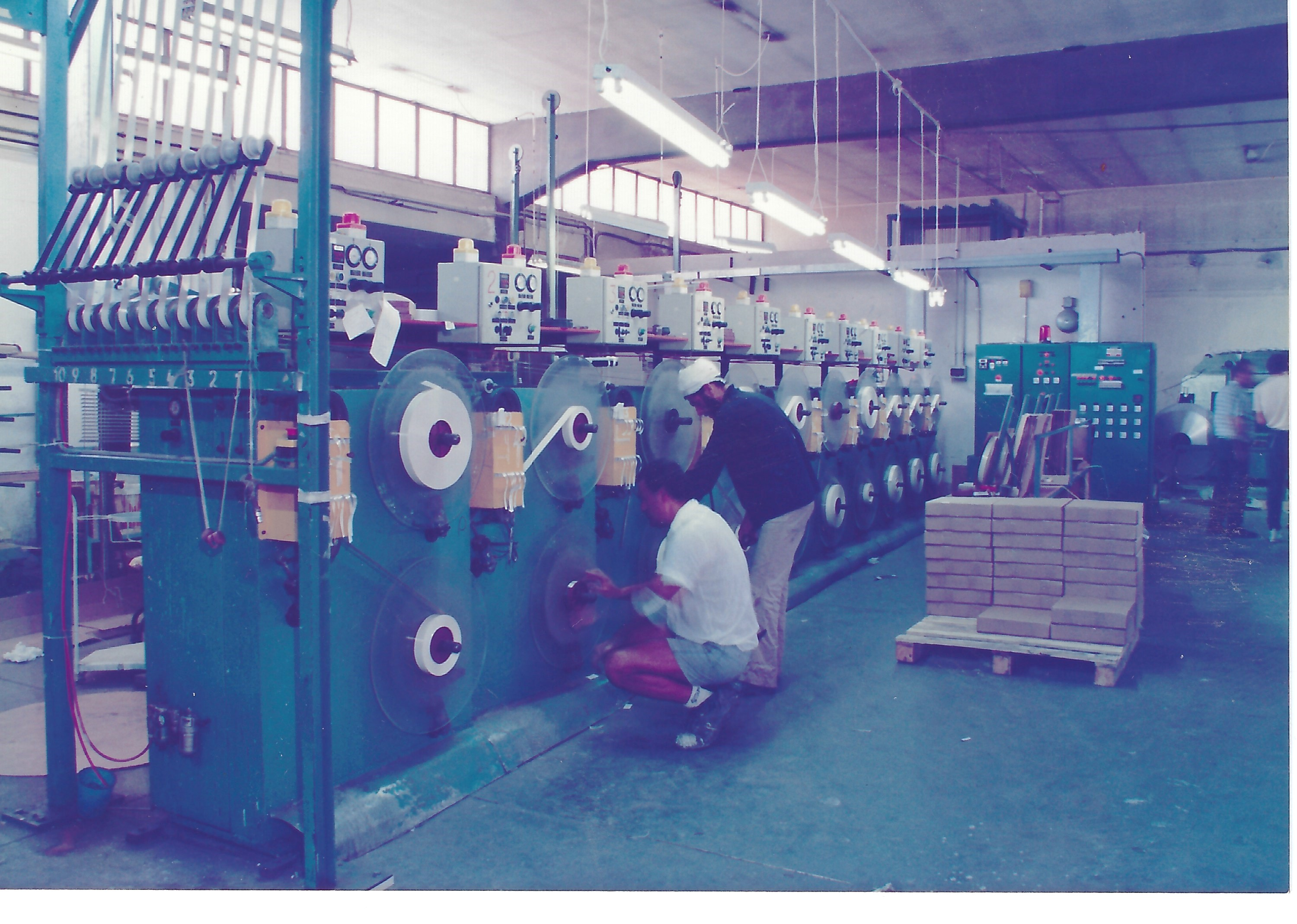 Zvi Plada